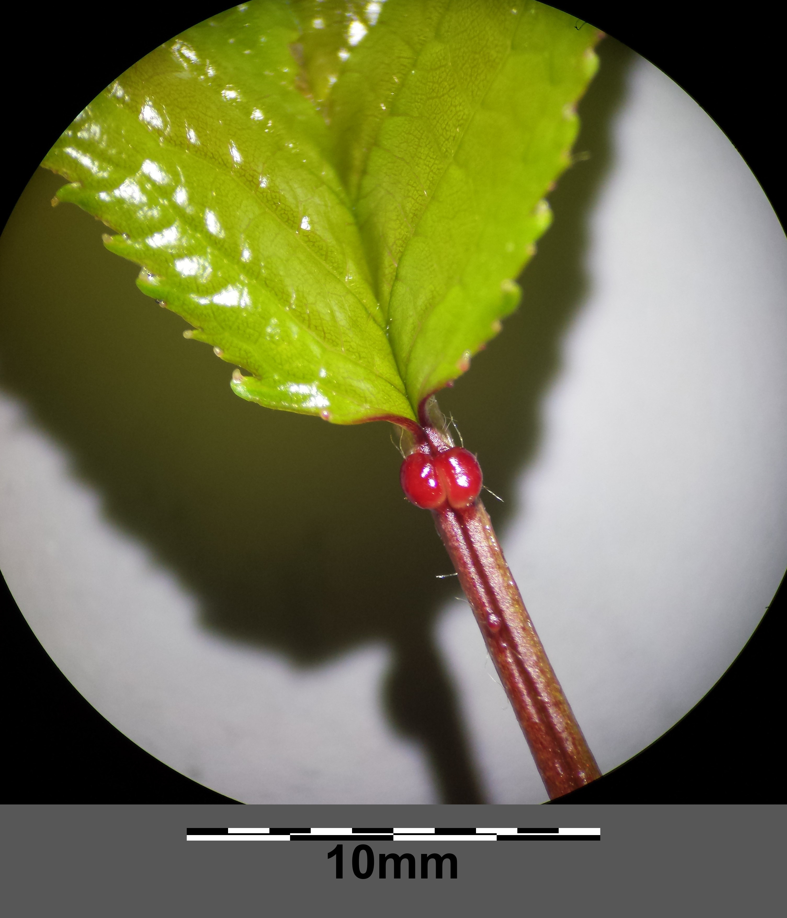 Petiole with red glands Taxonym: Prunus avium subsp. avium ss Fischer et al. EfÖLS 2008 ISBN 978-3-85474-187-9 Location: near Niederhollabrunn, district Korneuburg, Lower Austria - ca. 350 m a.s.l. Habitat: vineyard